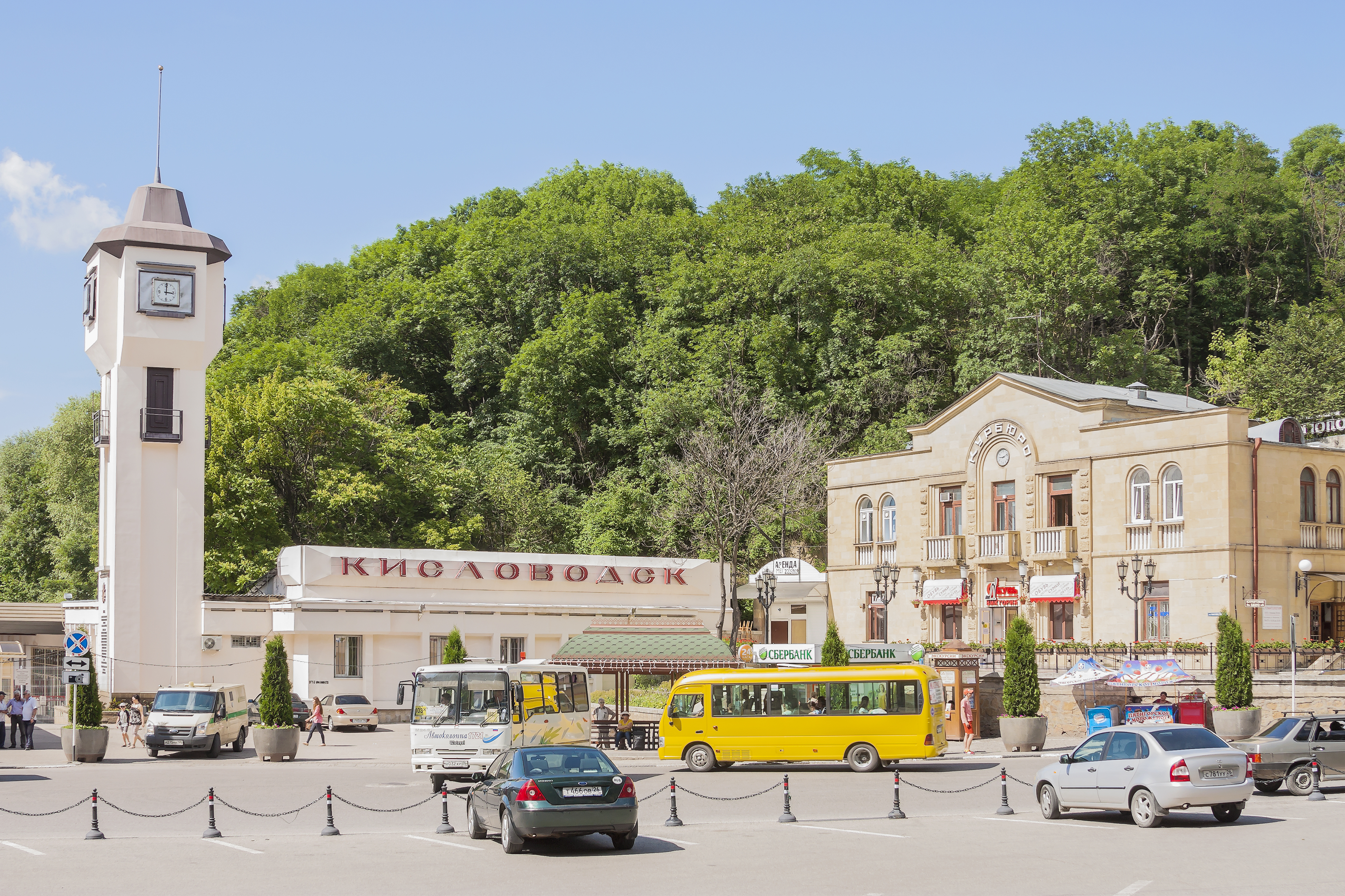 The building of the railway station: Vokzalnaya street, 13, Kislovodsk, Stavropol Krai